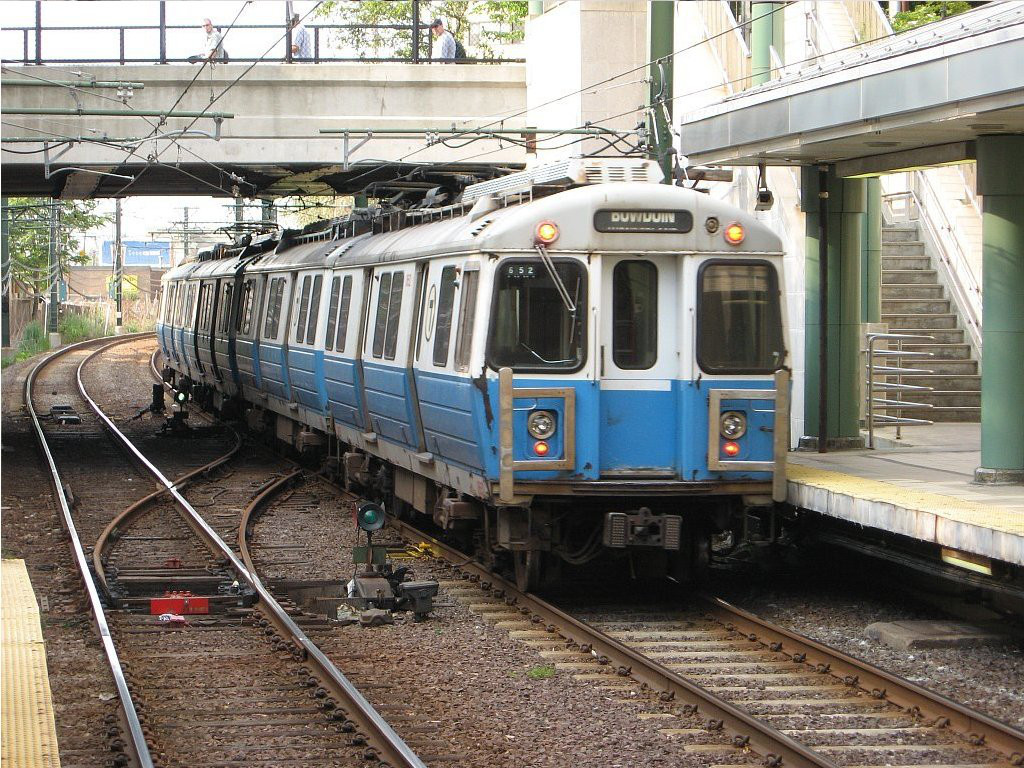 Blue Line #4 East Boston train leaves Revere Beach bound for Wonderland, #0652 at the end of the train.